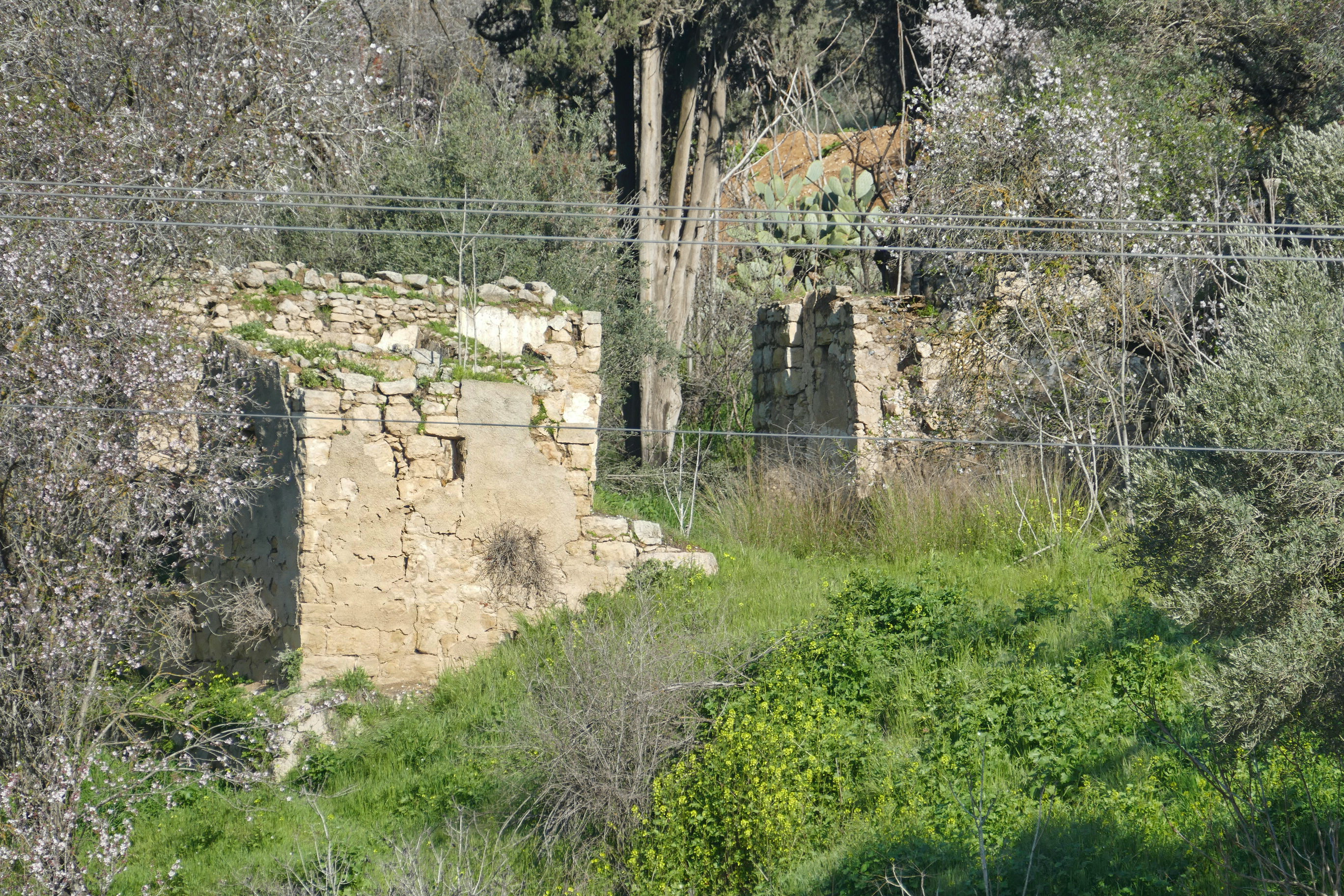 Remains of the Arab village of Kalonia in Motza